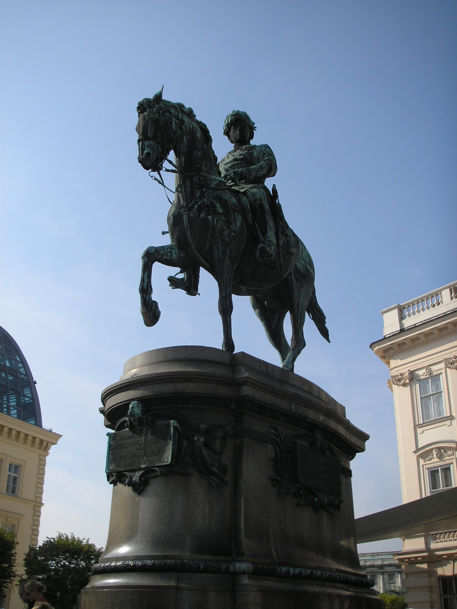 Monument to Archduke Albrecht of Austria in front of the Albertina, in Vienna's first district Innere Stadt.